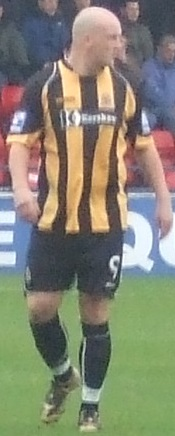 Lee McEvilly.